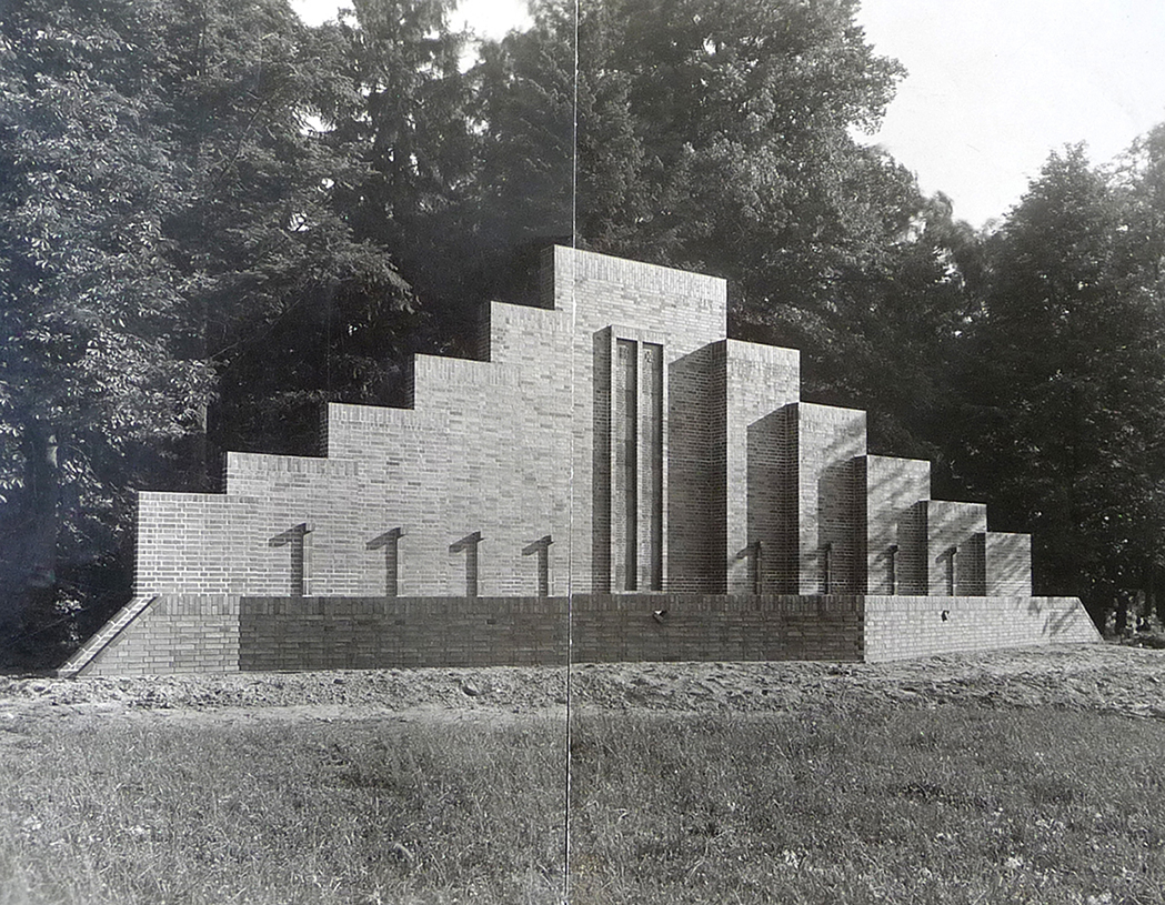 War memorial in Hagenow, designed by Ernst Karl Boy, 1928